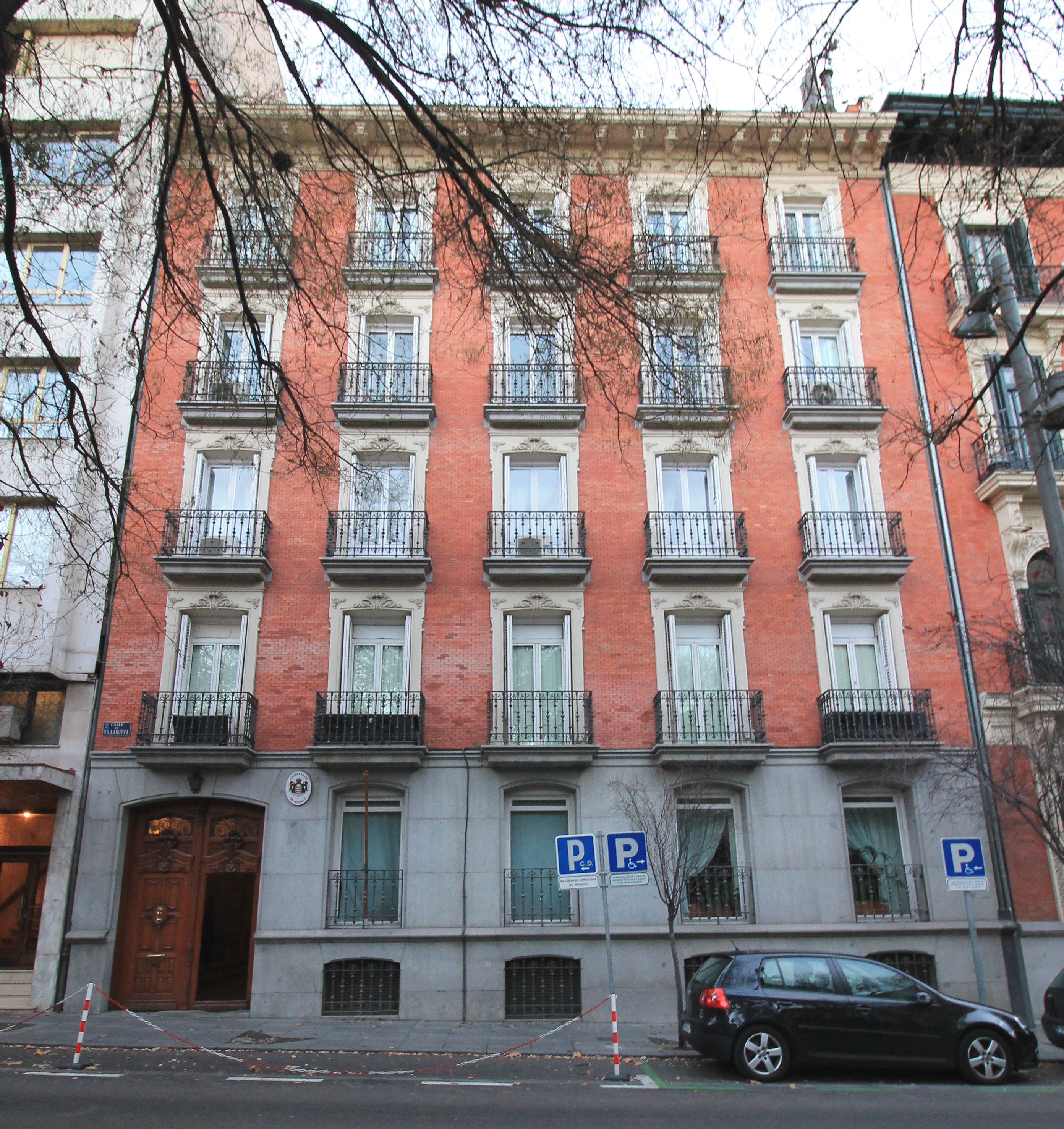 View of the Monegasque Embassy in Madrid (Spain).